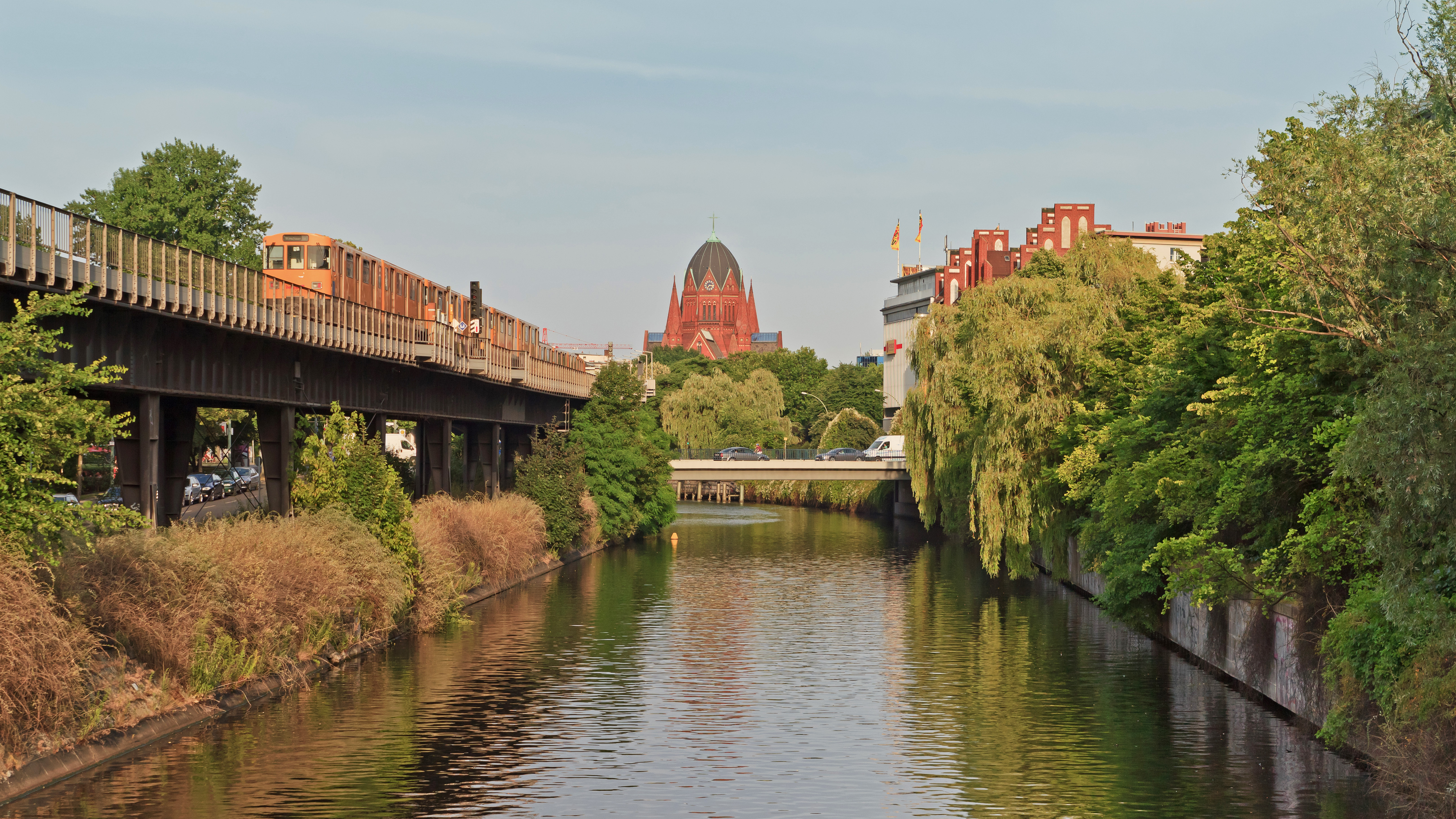 The Landwehr Canal in Berlin, Germany